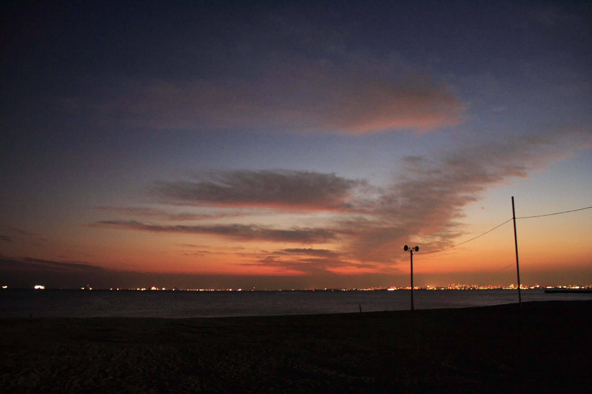 幕張海岸, Tokyo Bay, from Makuhari Coast